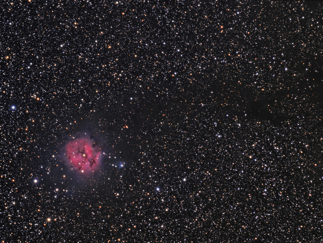 Amateur image of IC5146 - Cocoon Nebula in Cygnus